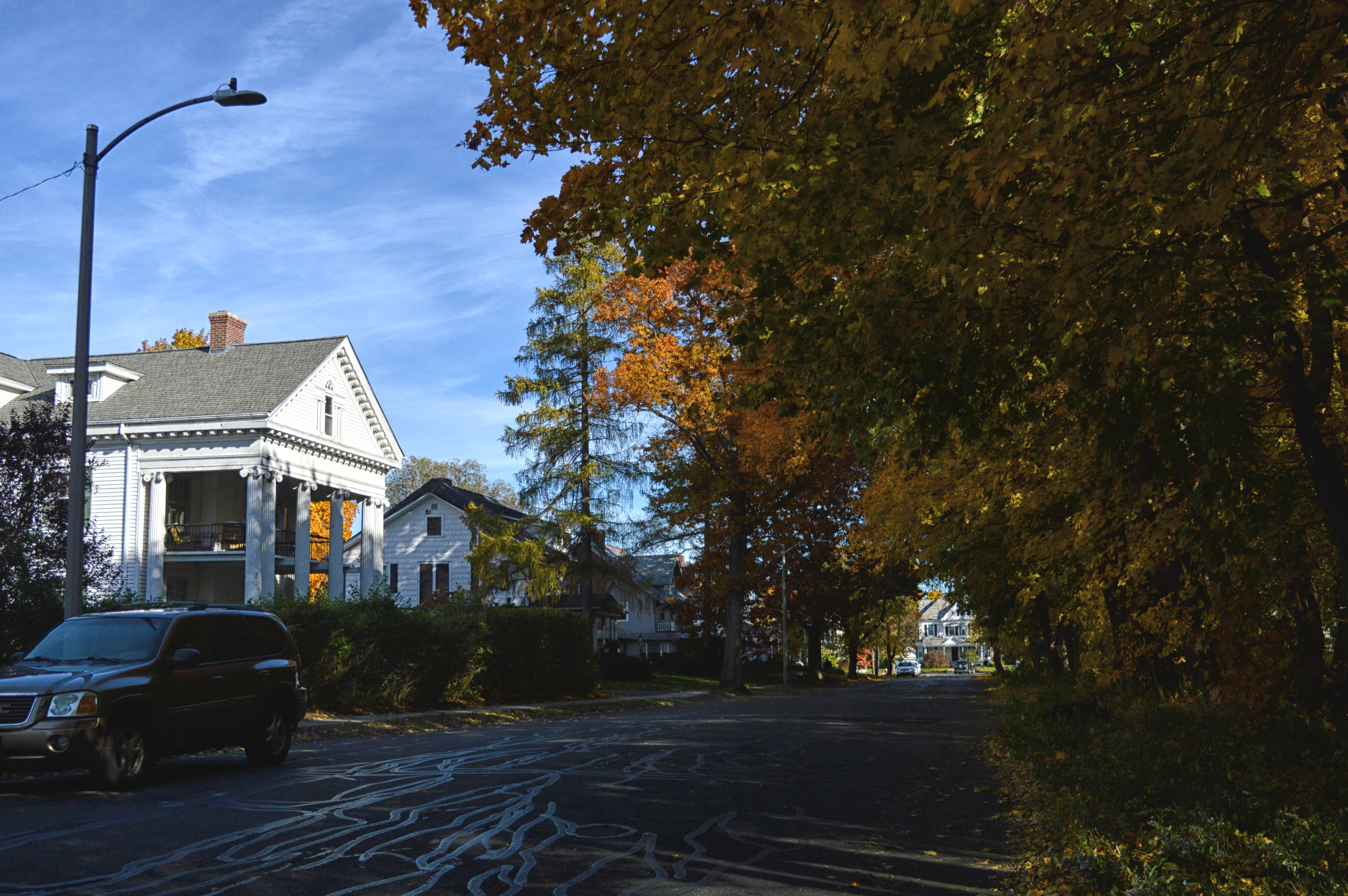 A typical residential street in the Highland Park neighborhood of Holyoke, Massachusetts.